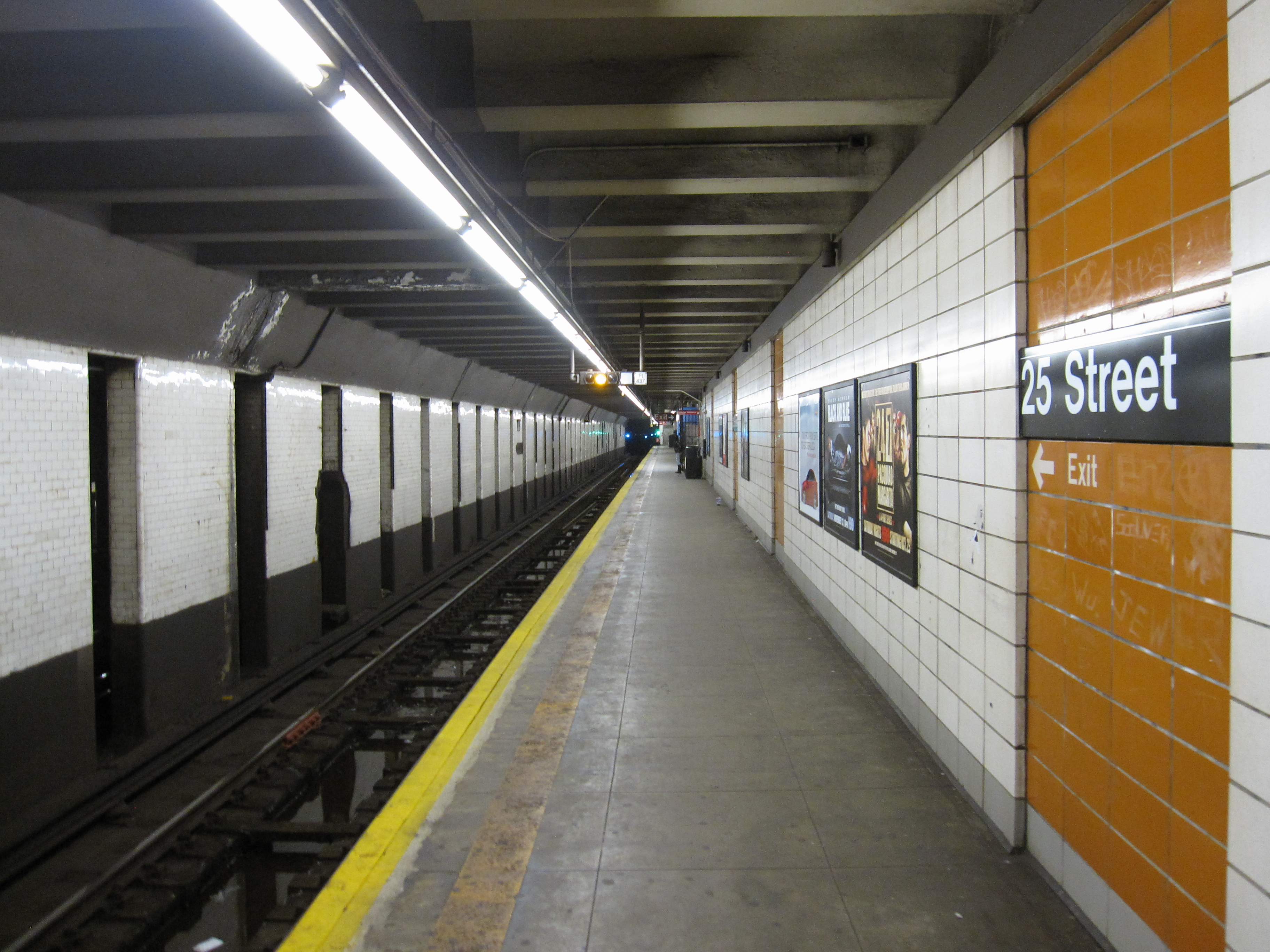 25th Street (BMT Fourth Avenue Line)